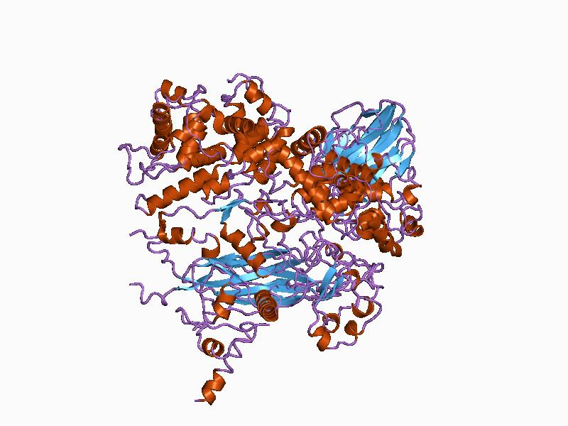 Cartoon representation of the molecular structure of protein registered with 1cd3 code.